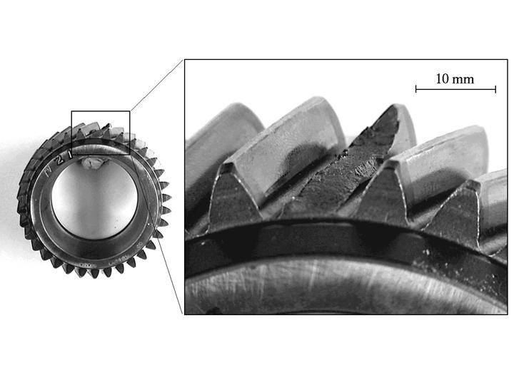 Tooth Interior Fatigue Fracture on intermediate gear